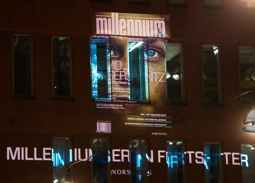 Advertising on the facade facing the world premiere of the book "The Girl in the Spider's Web", August 27, 2015 in Stockholm.